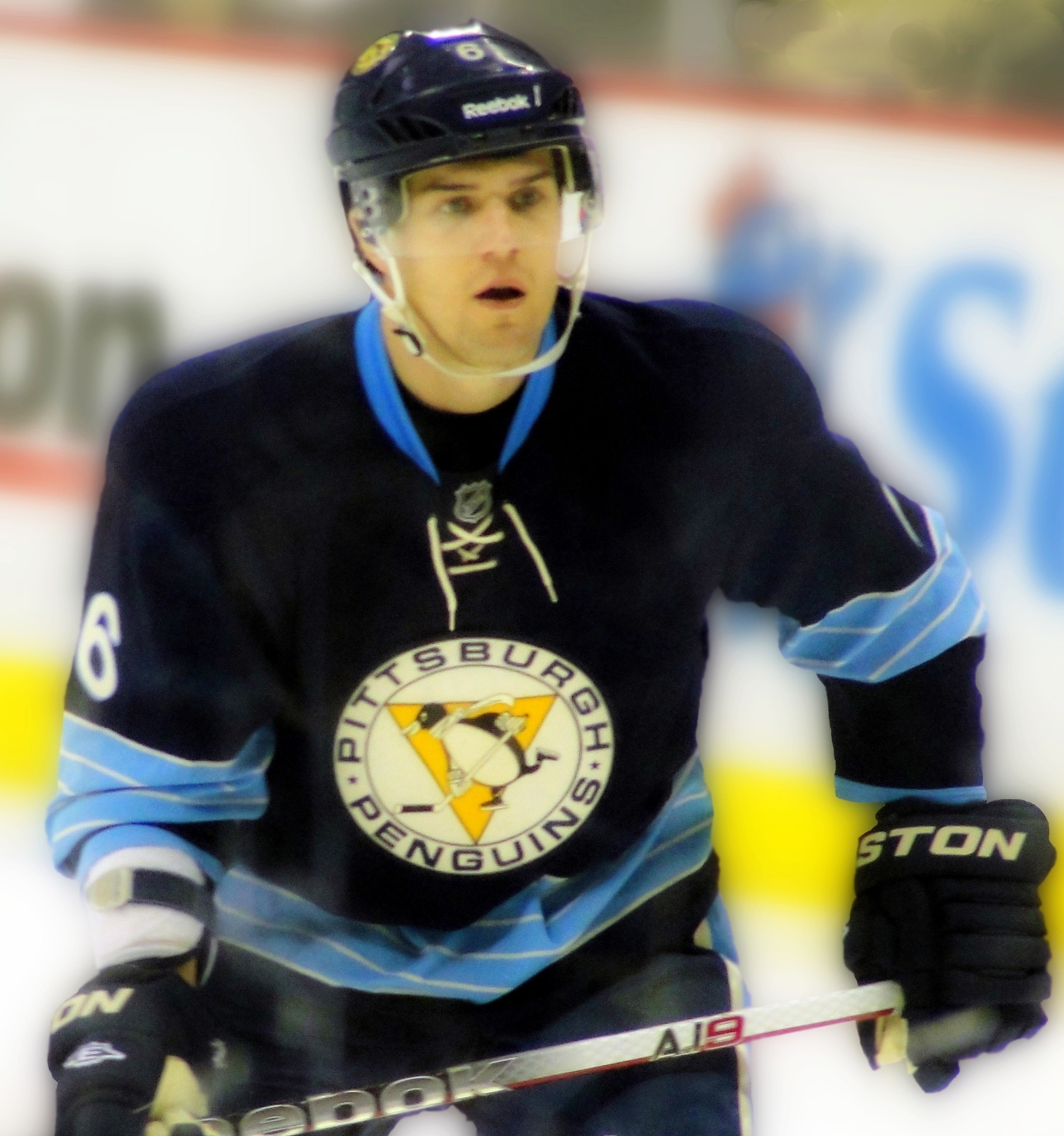 Ben Lovejoy of the Pittsburgh Penguins during a October 15, 2011 game against the Buffalo Sabres at Consol Energy Center in Pittsburgh, PA.